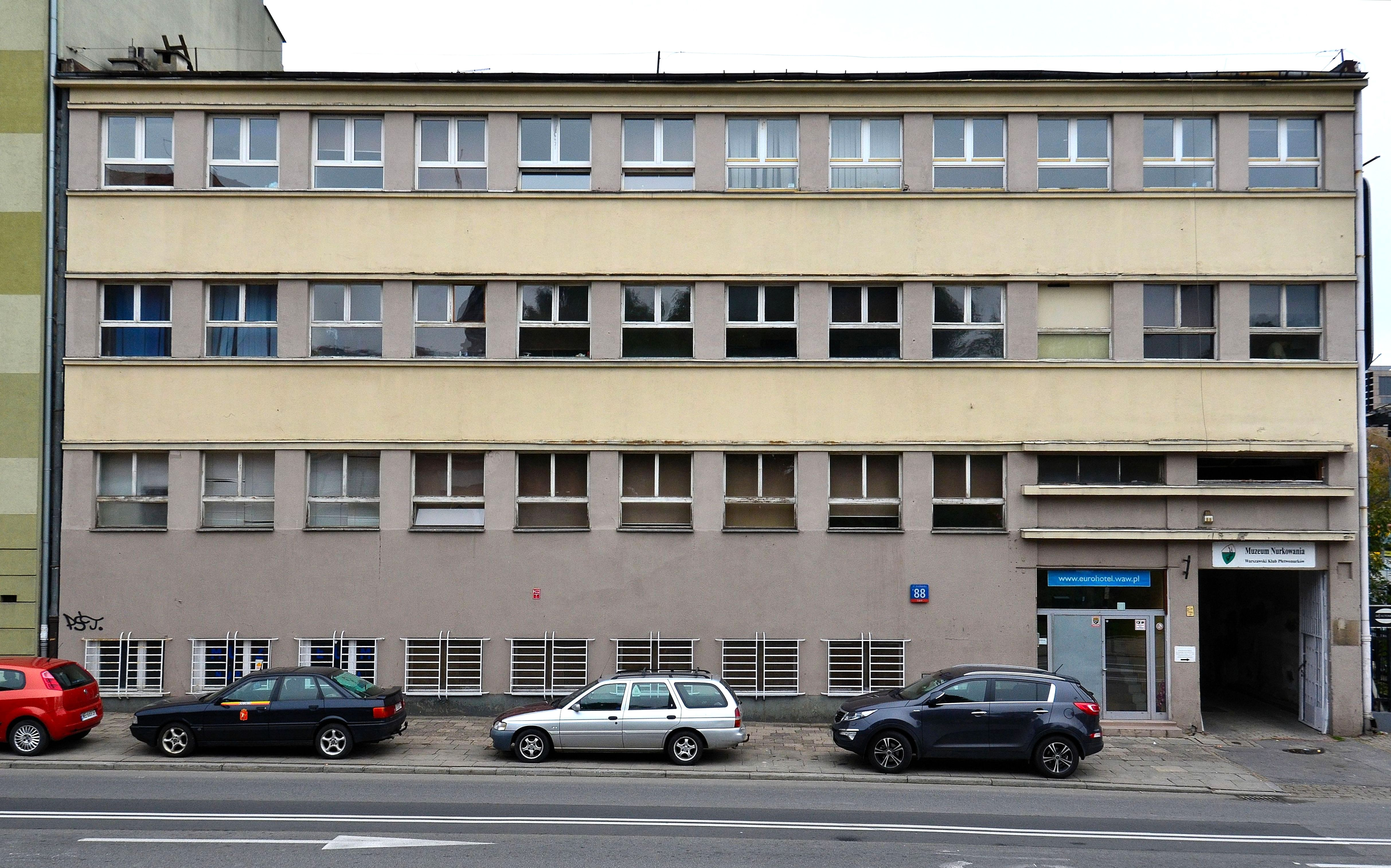 88 Grzybowska Street in Warsaw